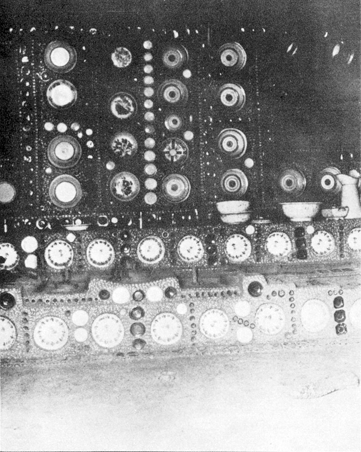 Chi shrine at the Igbo town of Nkaharia